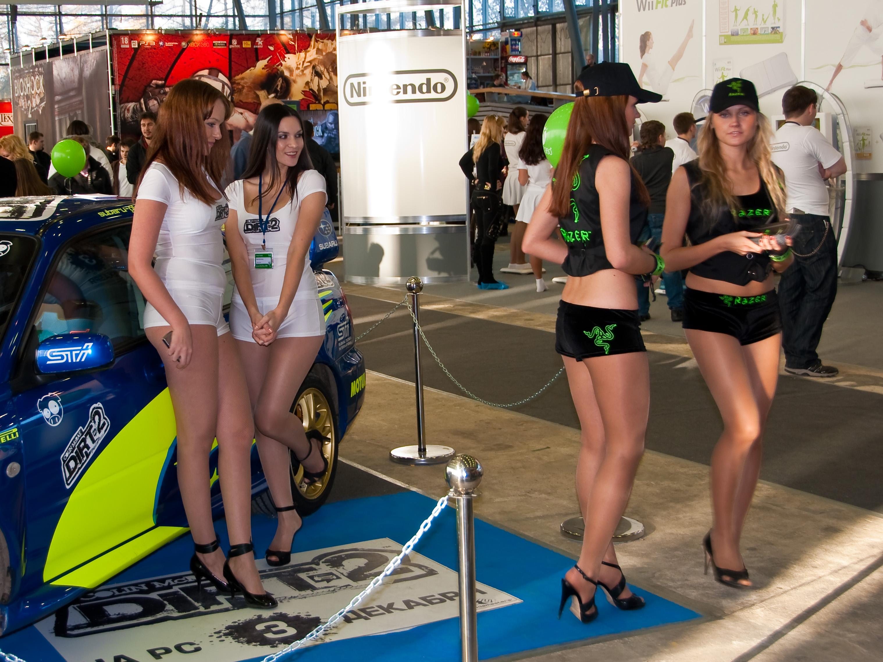 Dirt 2 and Razor girls at Igromir 2009